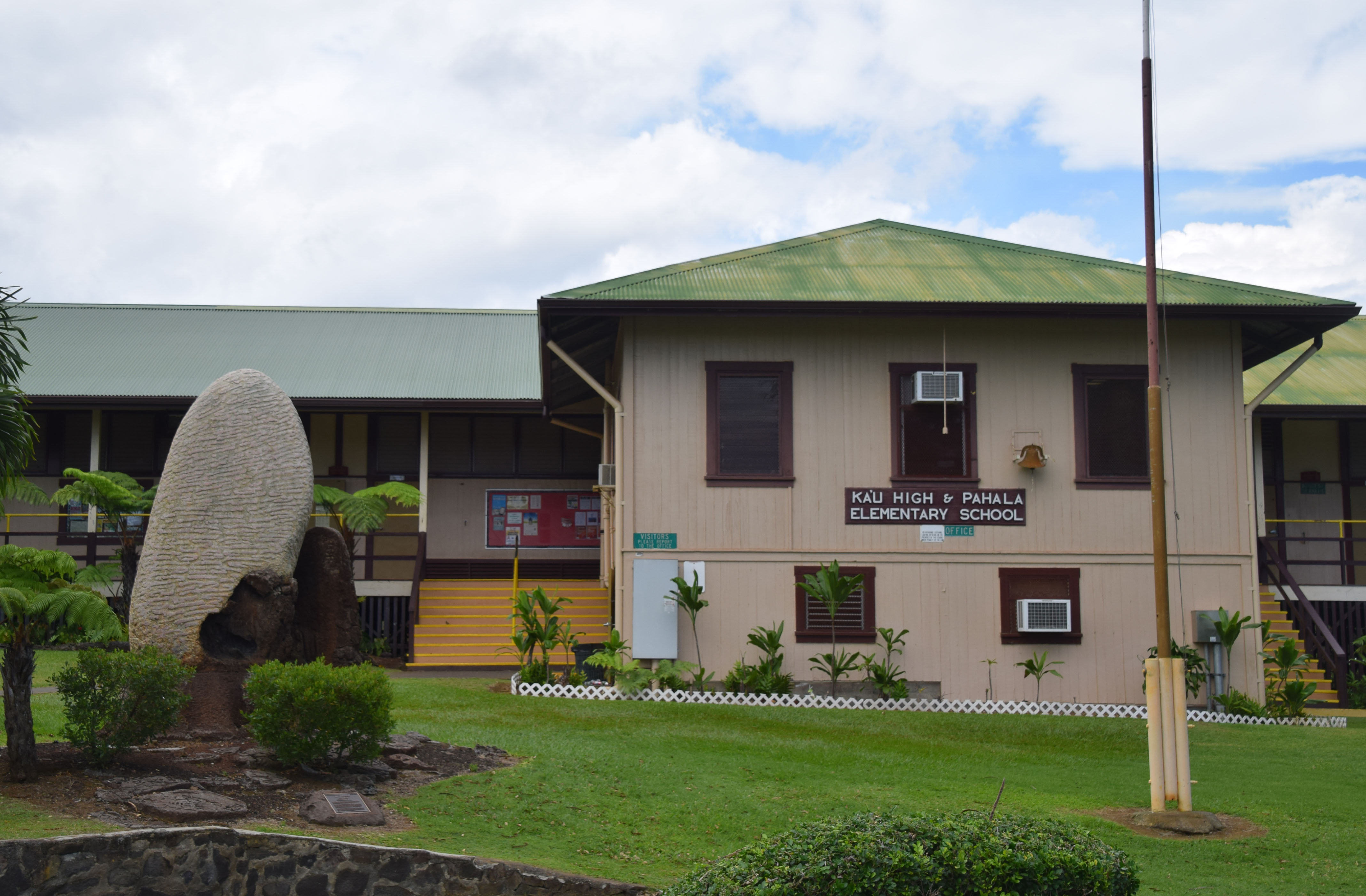 Kau High and Pahala Elementary School, Pahala, Kau District, Hawaii, USA